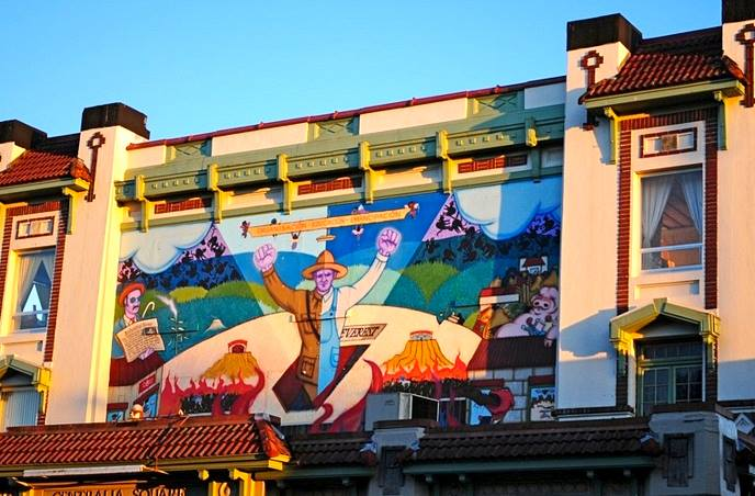 A mural in Centralia, Washington sponsored by local businessmen, history buffs and unions to memorialize Wesley Everest and the IWW side of the 1919 Centralia Massacre. By Mike Alewitz, completed December 12, 1997